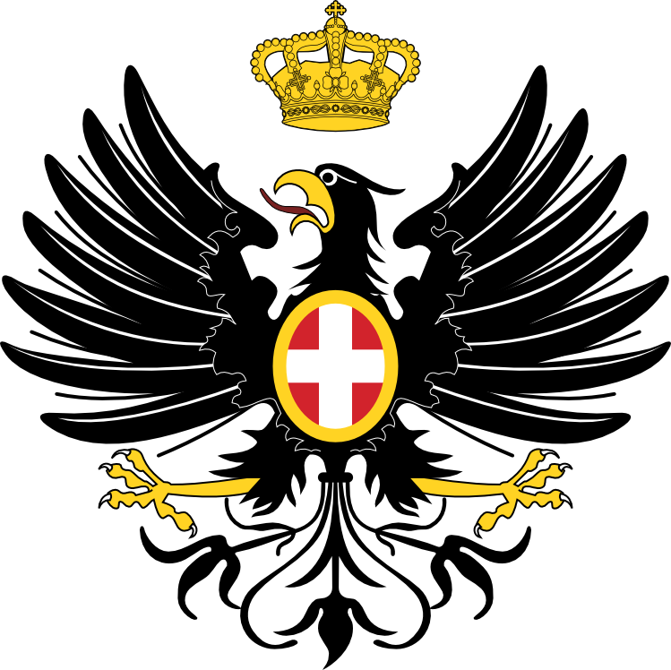 Savoy royal standard